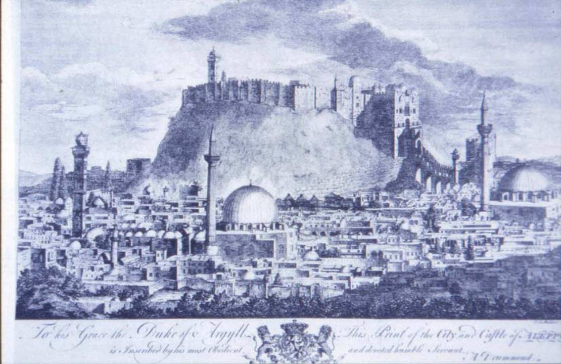 From Alexander Drummond's travel report 'Travels through different cities of Germany, Italy, Greece and several parts of Asia', published in 1754. Engraving - J.S. Müller.